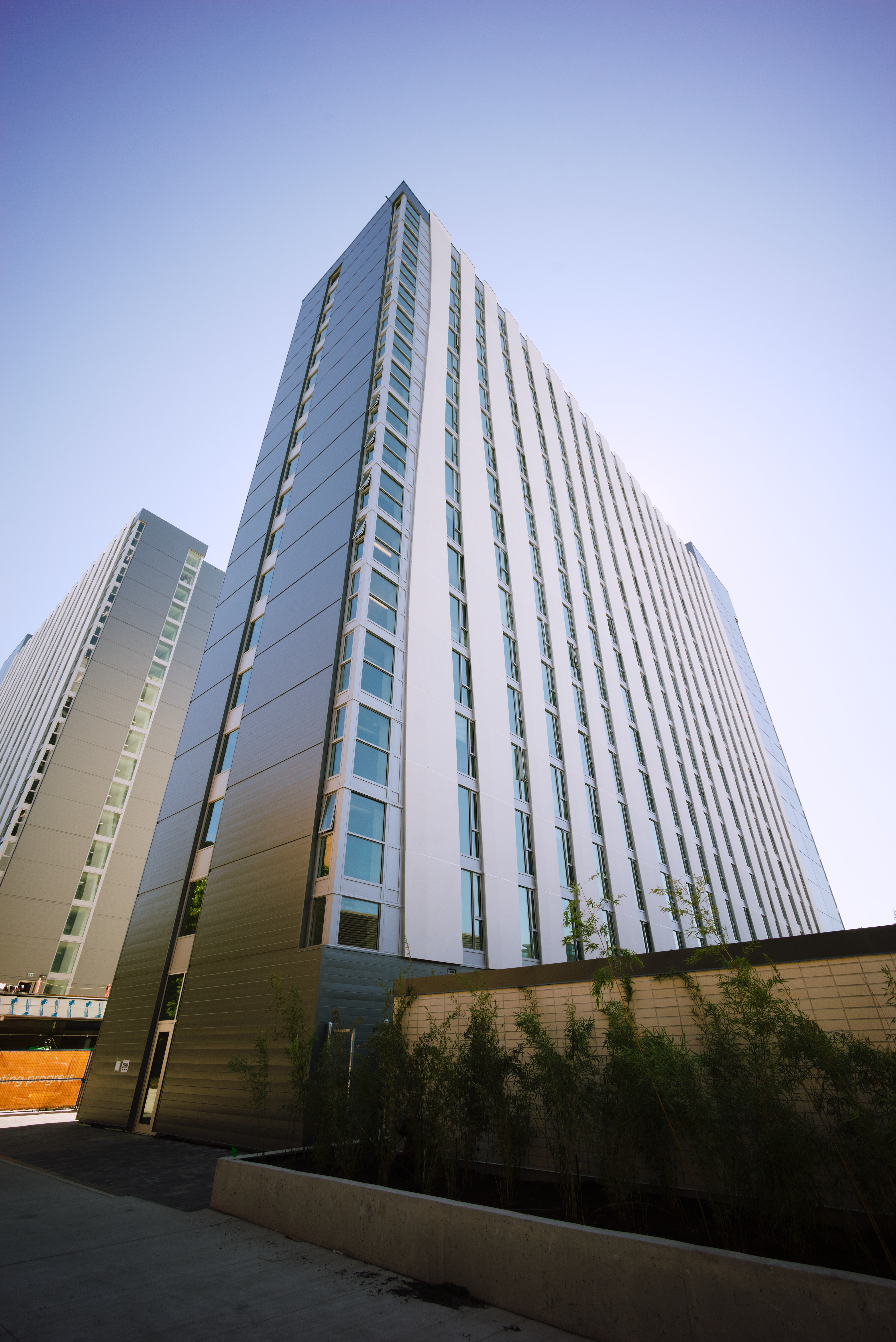 A student residence at the University of British Columbia, constructed in 2016.